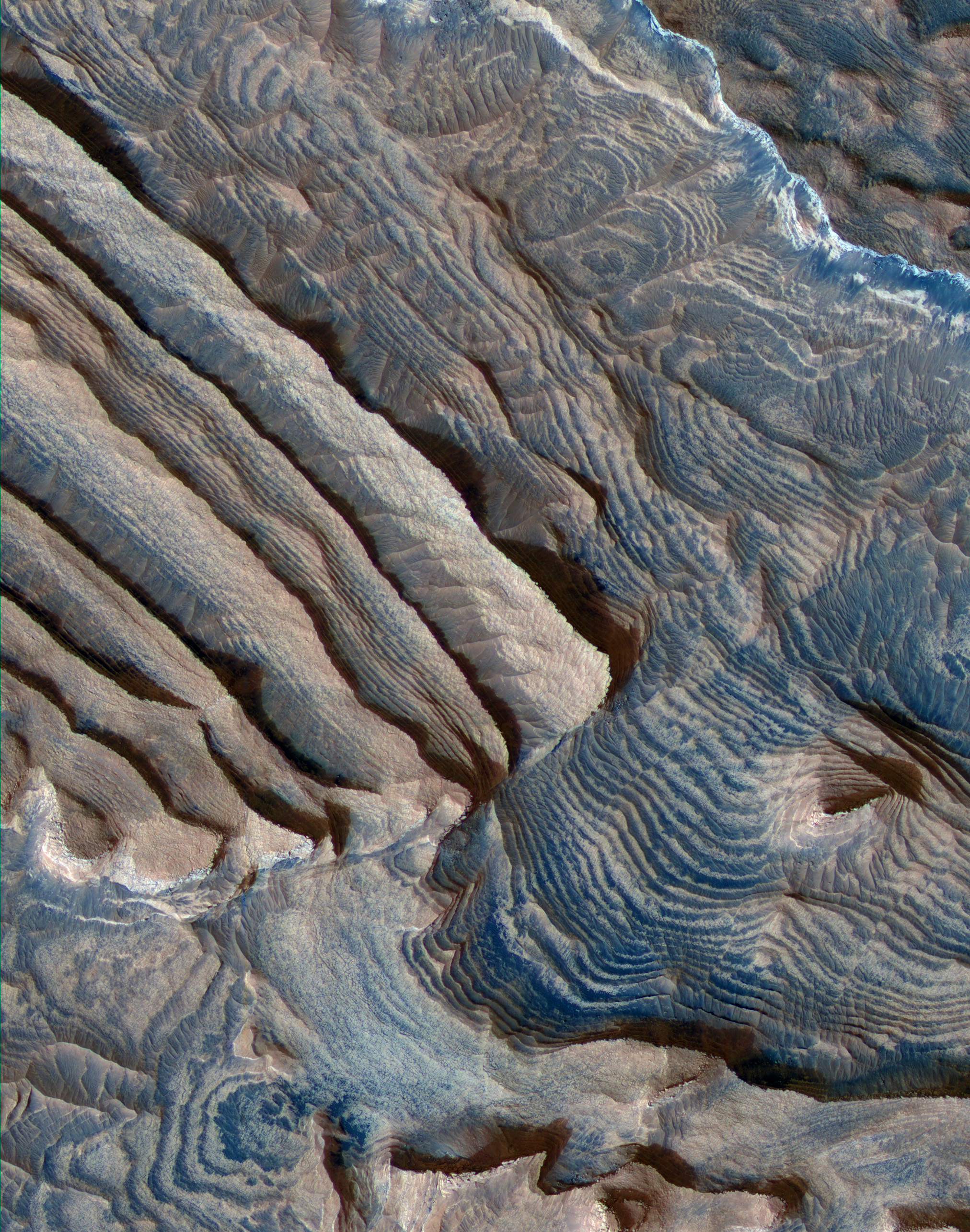 Climate cycles persisting for millions of years on ancient Mars left a record of rhythmic patterns in thick stacks of sedimentary rock layers, revealed in three-dimensional detail by a telescopic camera on NASA's Mars Reconnaissance Orbiter. Researchers using the High Resolution Imaging Science Experiment camera report the first measurement of a periodic signal in the rocks of Mars. This pushes climate-cycle fingerprints much earlier in Mars' history than more recent rhythms seen in Martian ice layers. It also may rekindle debates about some patterns of rock layering on Earth. Layers of similar thickness repeat dozens to hundreds of times in rocks exposed inside four craters in the Arabia Terra region of Mars. In one of the craters, Becquerel, bundles of a 10-layer pattern repeat at least 10 times, which could correspond to a known 10-to-one pattern of changes in the tilt of the planet's rotation axis. "Each layer has weathered into a stair step in the topography where material that's more resistant to erosion lies on top of material that's less resistant to erosion," said Kevin Lewis of the California Institute of Technology, Pasadena, who is the lead author of a report on the periodic layering published in the Dec. 5 edition of the journal Science.